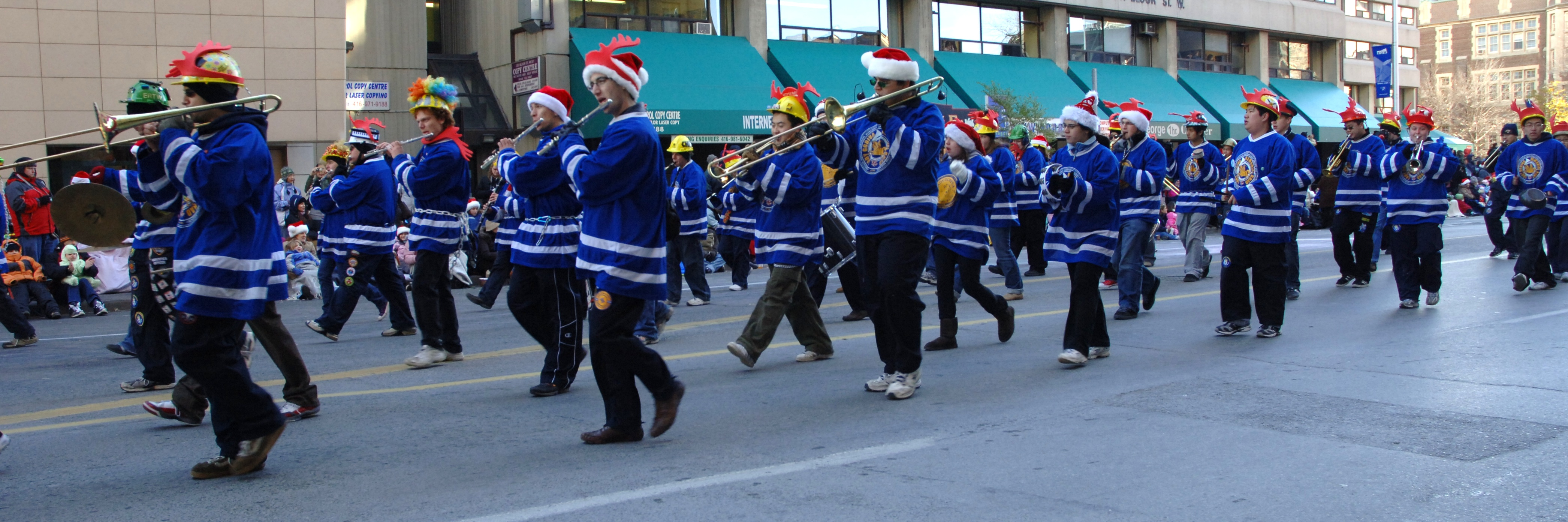 Picture of University of Toronto's Lady Godiva Memorial Band